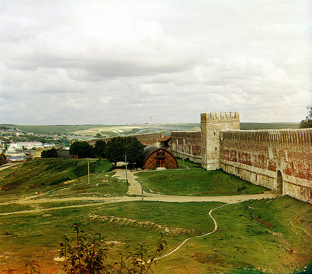 Walls of 16th-century kremlin in Smolensk